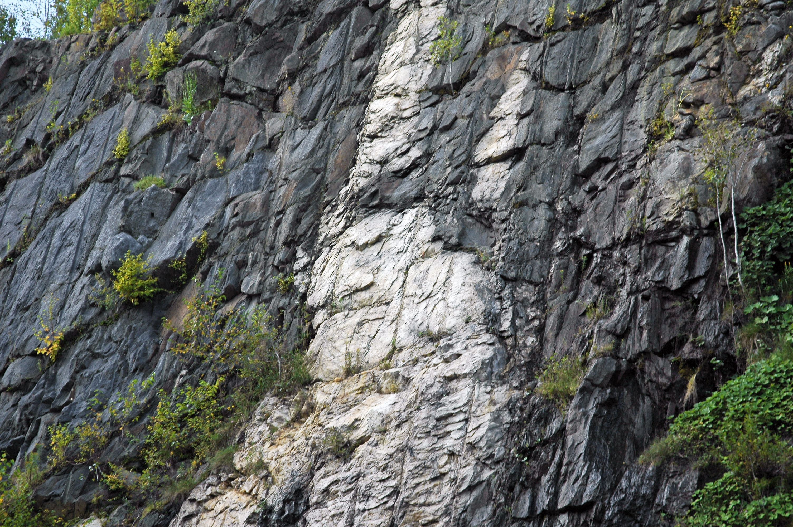 Schist & quartzite in the Devonian of Vermont, USA. The dark-colored rocks seen here are schists of the Devonian-aged Waits River Formation in Vermont. The light-colored rocks are quartzites. The precursors to these metamorphics were shales and sandstones. Stratigraphy: Waits River Formation, Devonian Locality: roadcut along Route 9, at the Route 9-Stark Road intersection, east of Marlboro & west of Brattleboro, Windham County, southern Vermont, USA (42° 52' 14.92" North latitude, 72° 39' 19.15" West longitude)